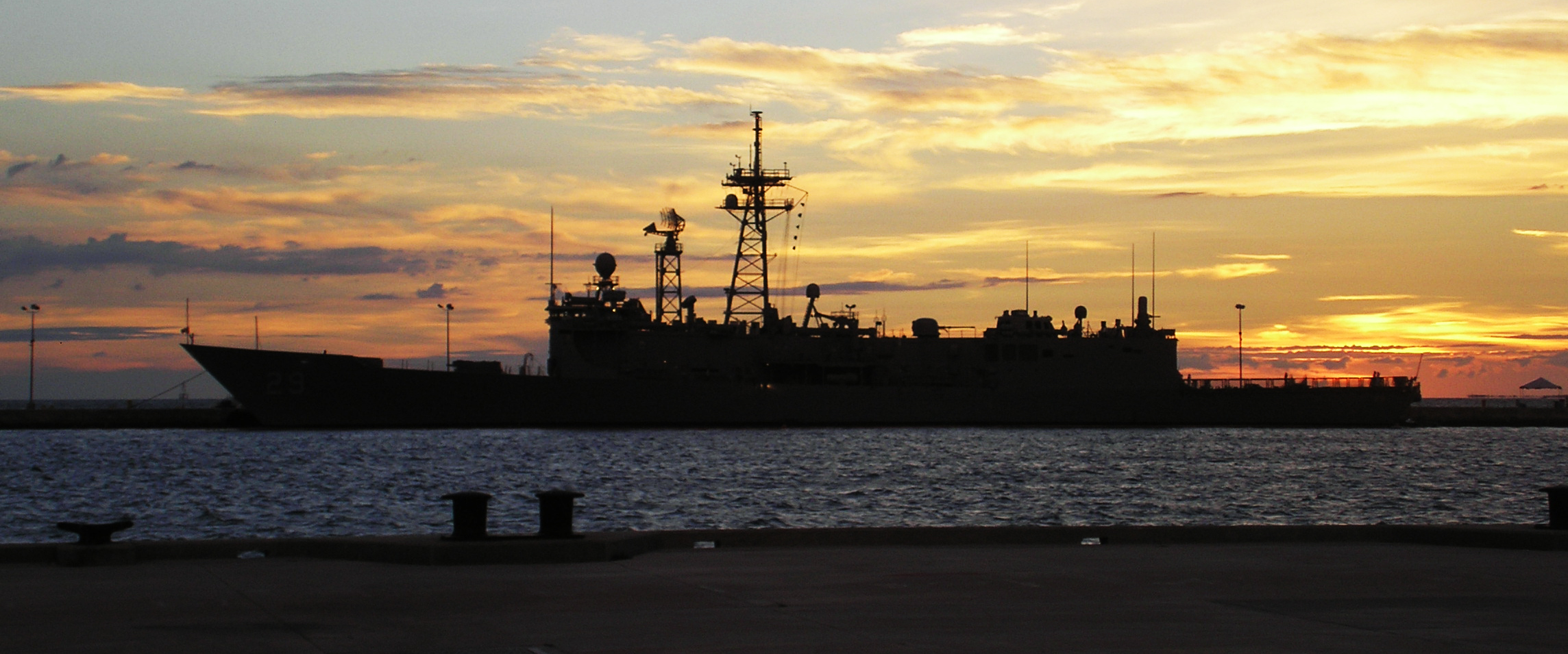 The Perry-class frigate USS Steven W. Groves (FFG-29) during a port visit in Key West, Florida on July 22, 2007. The ship is moored at the Outer Mole Pier in Key West, with the sunset behind it. :en:User:JKBrooks85|JKBrooks85 23:28, 23 July 2007 (UTC)